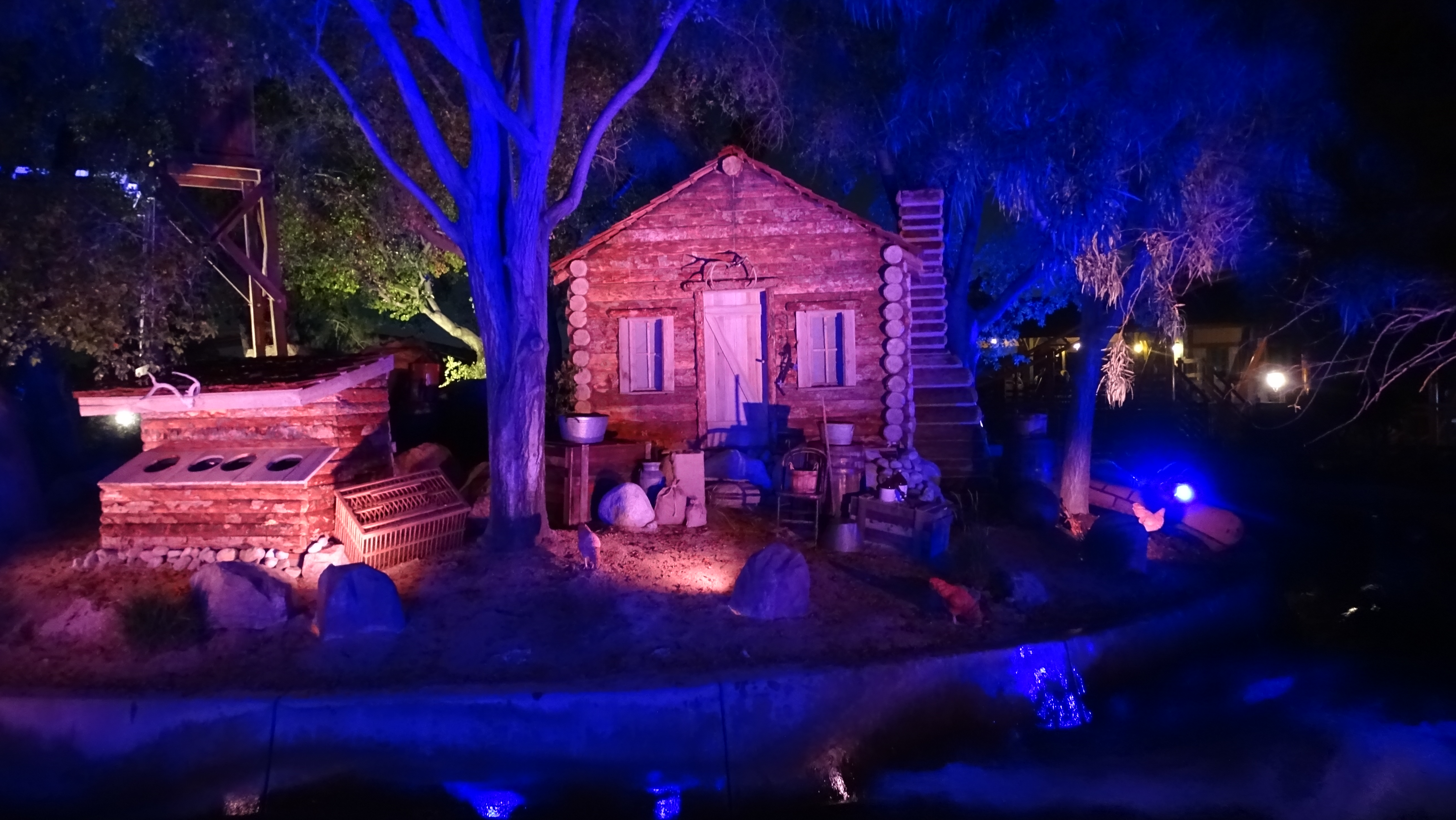 The ride features a aesthetically pleasing night light package